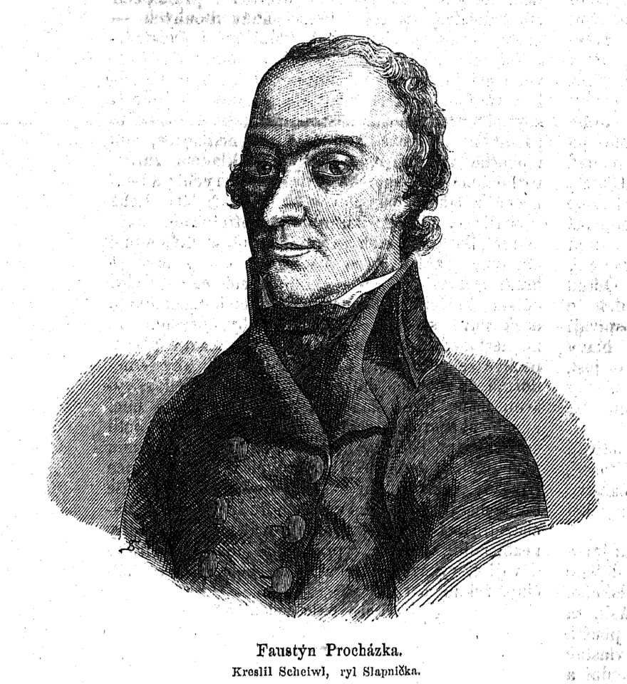 Portrait of František Faustin Procházka, Czech writer.